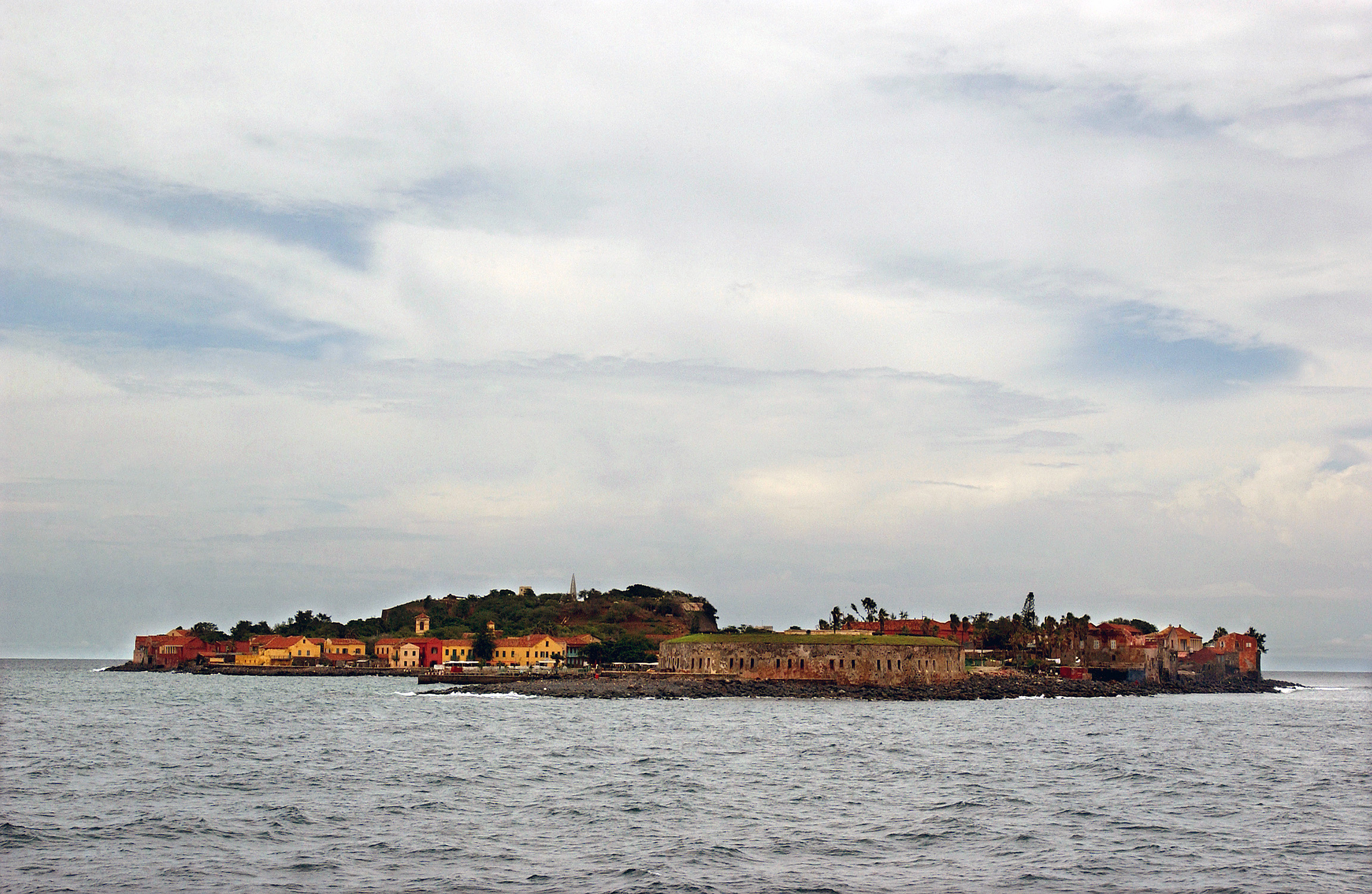 Goree Island, Senegal, located off the Western African coast, was where slaves were taken after being captured to be put on ships bound for Cuba, Brazil, and the United States. Photograph taken during Joint Task Force LIBERIA.